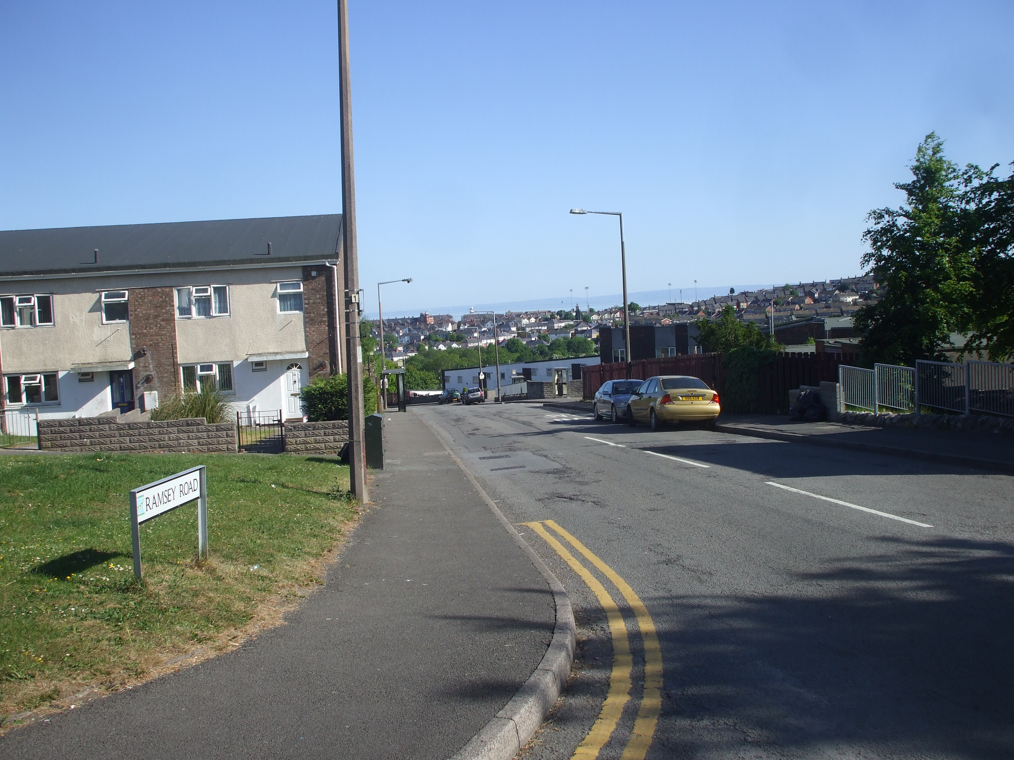 Ramsey Road, edge of Gibbonsdown, Barry, Barry,Vale of Glamorgan